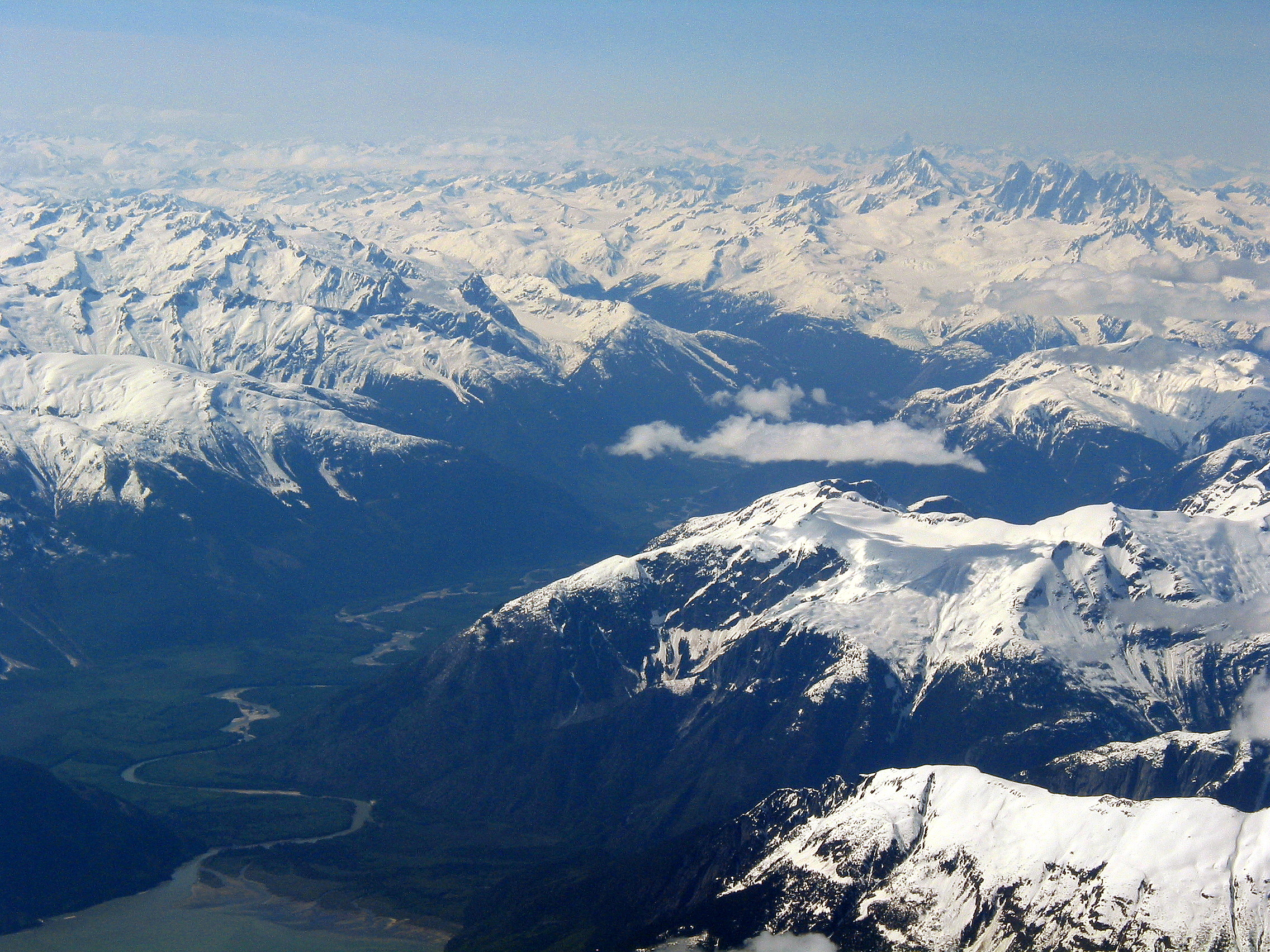 Mt Waddington in the Distance